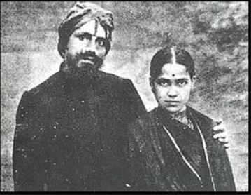 Subramanya Bharathi with wife Chellamma. Subramania Bharati (1882– 1921) was an Indian writer, poet and journalist, and Indian independence activist and social reformer from Tamil Nadu. He is popularly known as "Mahakavi Bharati".